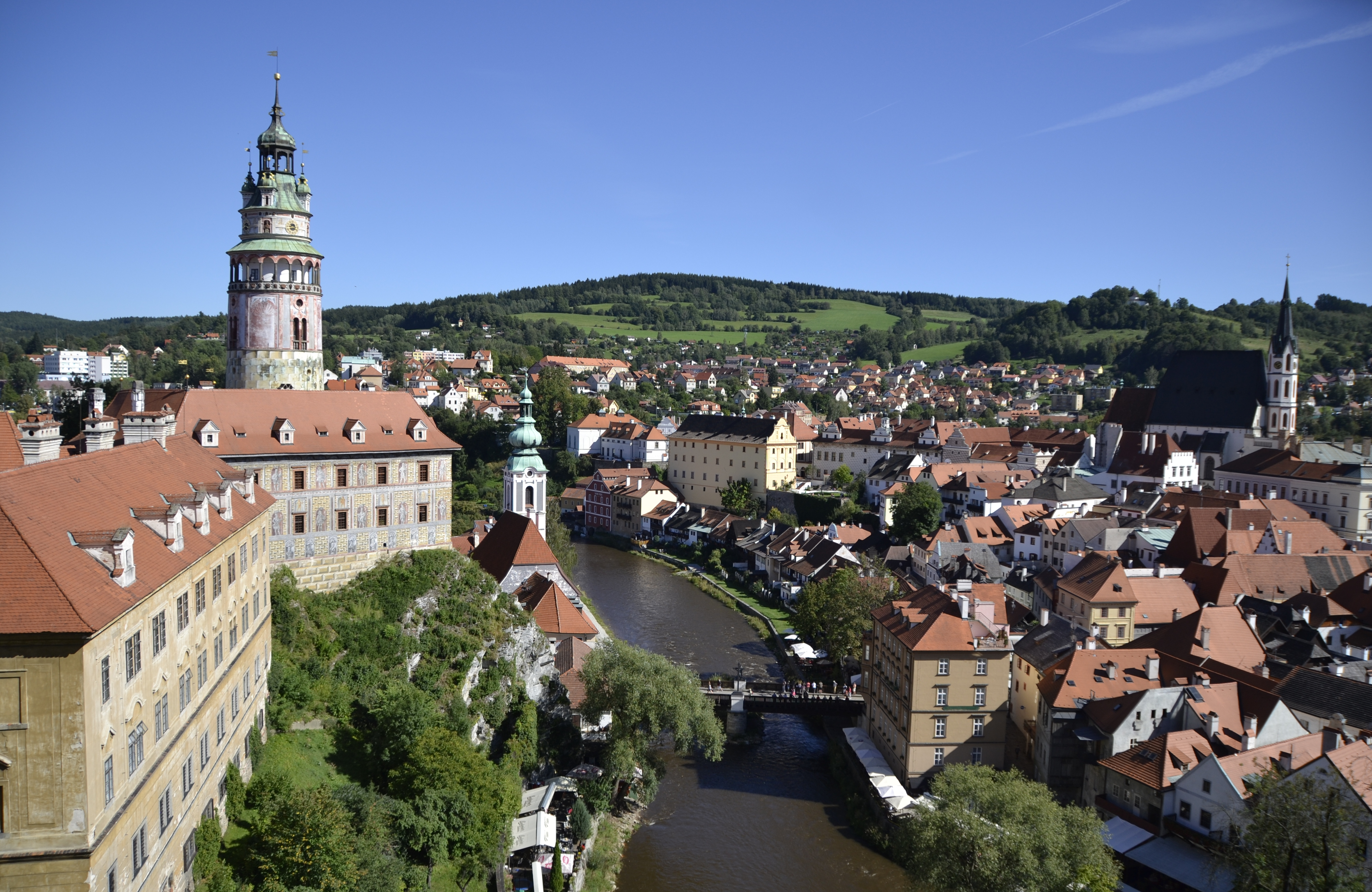 A view over Český Krumlov with parts of the Little Castle and the old town of Krumlov.